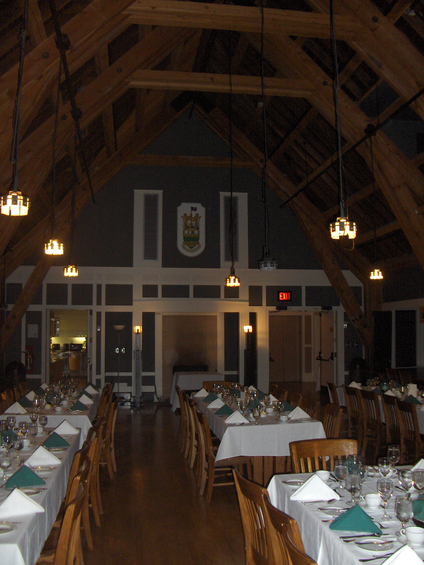 Great Hall of Green College, University of British Columbia, looking towards coat of arms above fireplace and servery. Tables set for Founders Dinner, 2007.